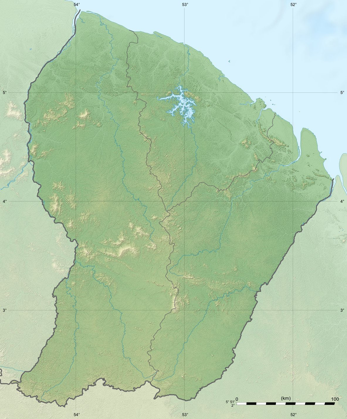 Blank physical map of the region and department of the French Guiana, France, for geo-location purpose, with arrondissements boundaries.